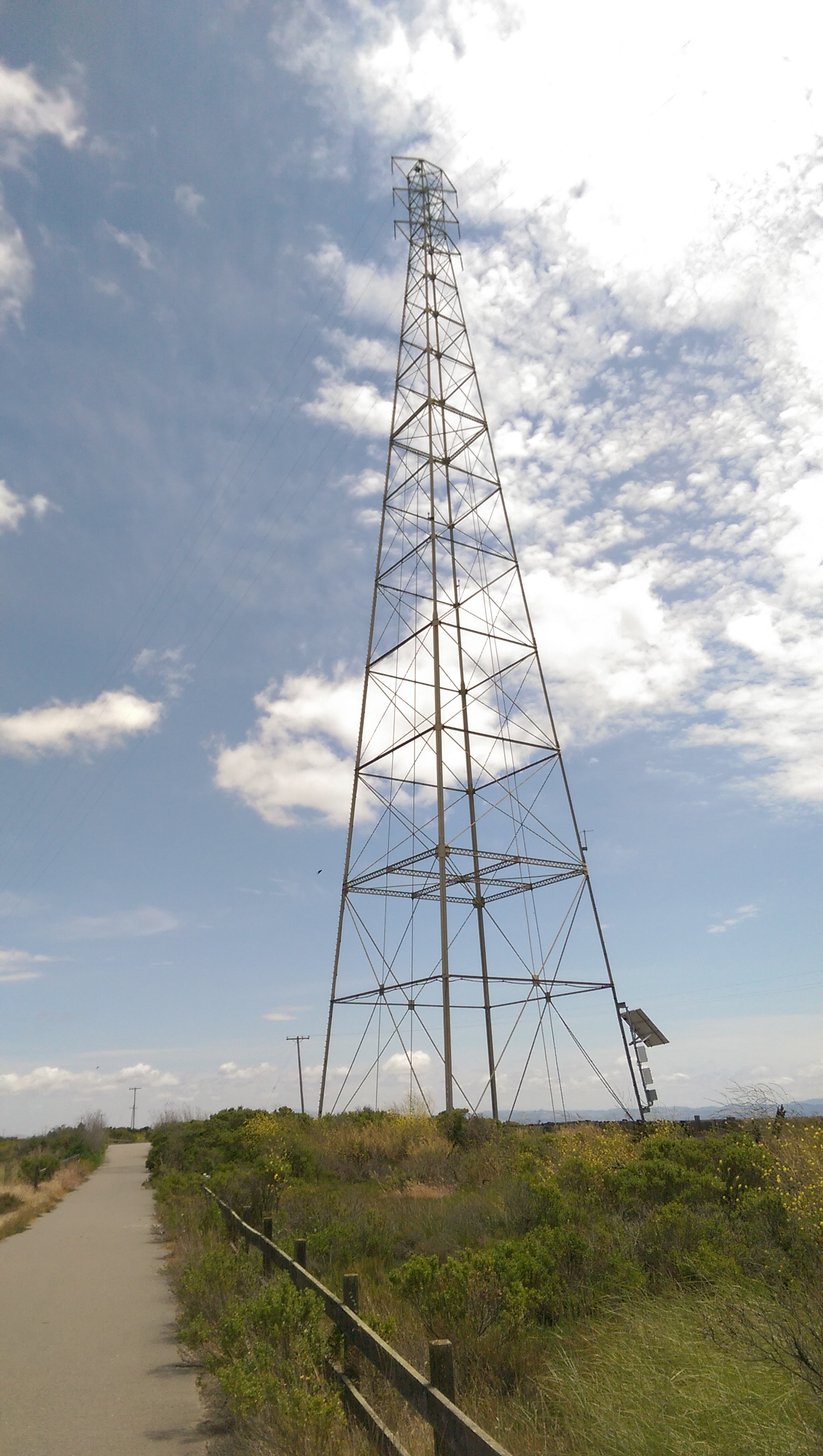 The rebuilt electric tower where promoter Bill Graham was killed in a helicopter crash in 1991. Photo by Jim Heaphy.